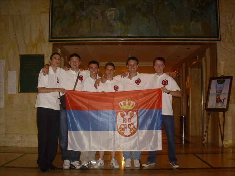 Matematička gimnazija - Mathematical Gymnasium Belgrade - MGB - International Mathematics Olympiad - IMO 2010 Serbian National Team. All 6 students, aged 16-18, came from D-division of Mathematical Gymnasium Belgrade. In this picture, from left to right: Stevan Gajović, Mihajlo Cekić, Teodor von Burg, Luka Milićević, Dušan Milijančević, Rade Špegar. Stevan Gajović, MGB 3rd grade Mihajlo Cekić, MGB 4td grade, left to Trinity College, University of Cambridge Teodor von Burg, MGB 3rd grade Luka Milićević, MGB 4td grade, left to Trinity College, University of Cambridge Dušan Milijančević, MGB 4td grade, left for MIT; accepted and received full scholarship of both Trinity College, University of Cambridge, and Massachusetts Institute of Technology Rade Špegar (MGB 2nd grade).Serbia (i.e. this team) ranked 10th in the world, and Mathematical Gymnasium ranked 1st.